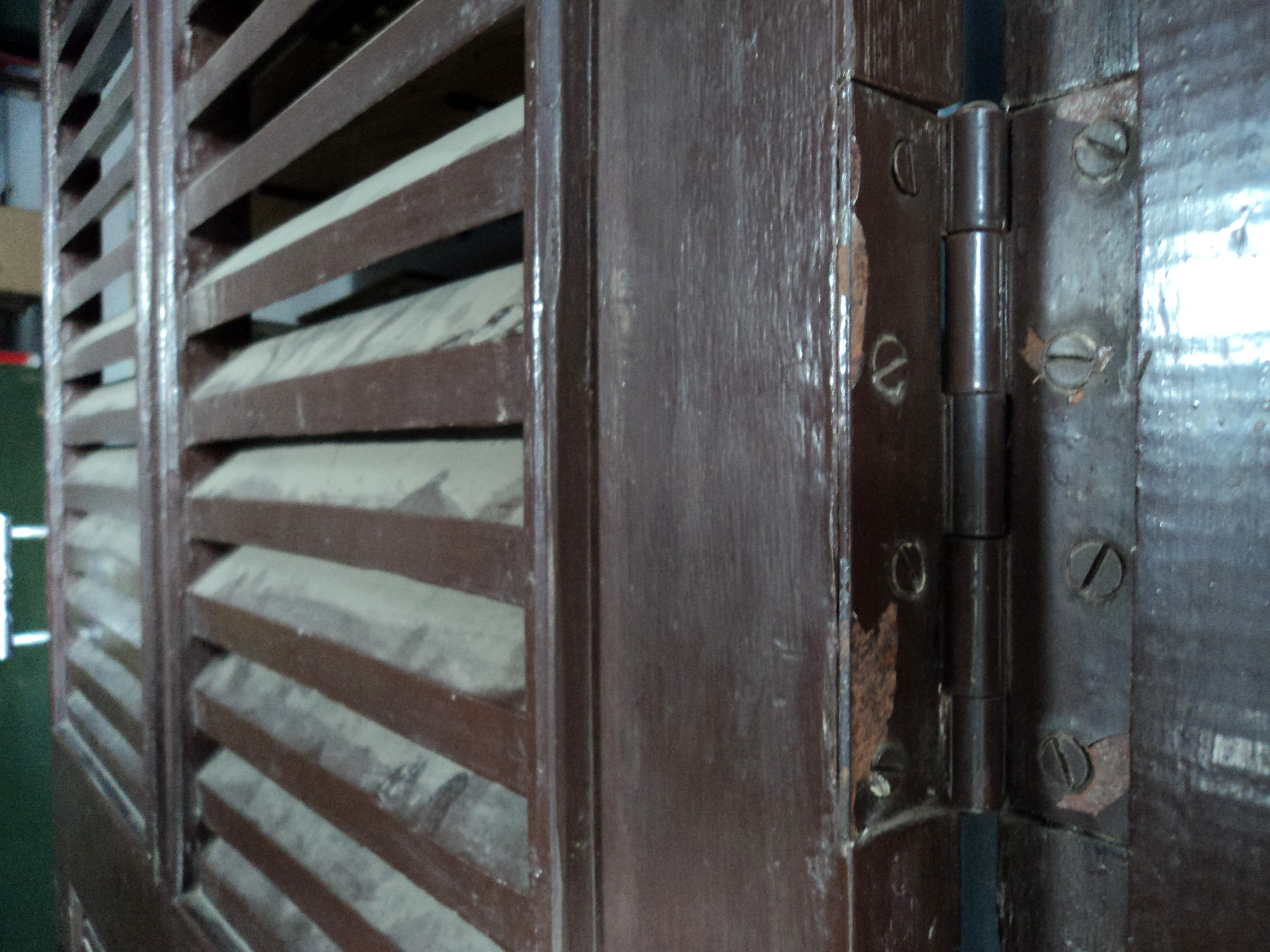 the Door hinge, Tamil Nadu